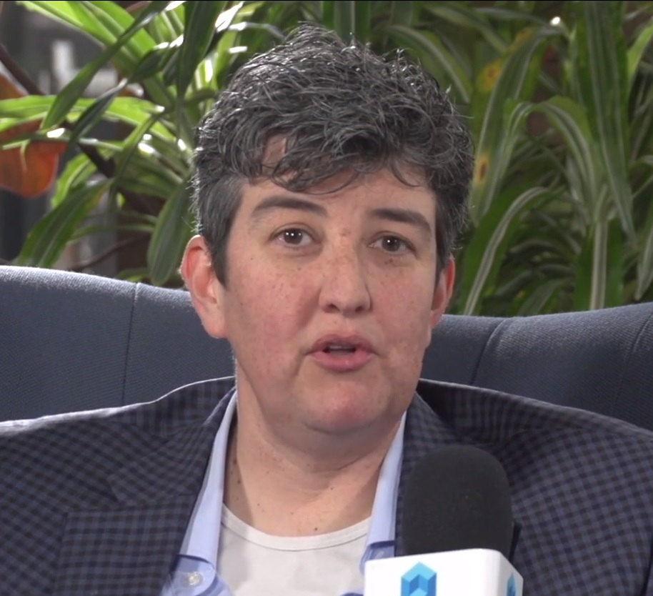 Tara Hernandez, from Linden Labs Inc., sits down with Lisa Martin, theCUBE at the CloudNOW 5th annual ‘Top Women in Cloud’ Innovation Awards in Mountain View, CA.